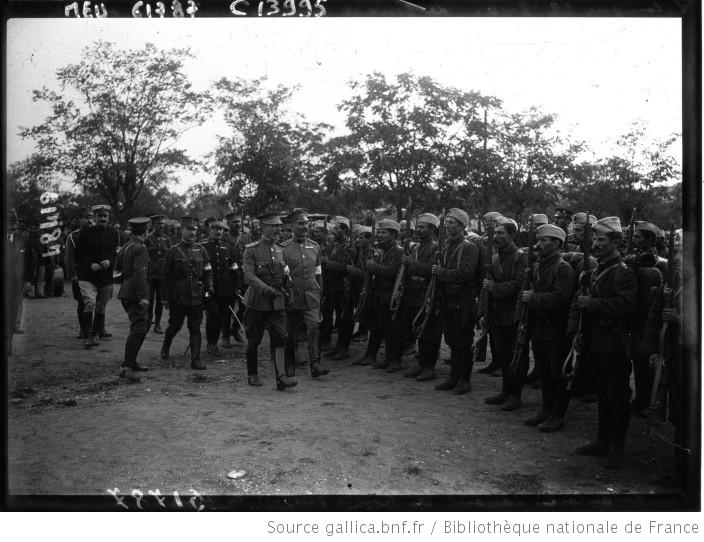 General Emmanouil Zymvrakakis and Colonel Christodoulou review the 1st Battalion of the National Defence army before its march to the front, Thessaloniki 1916